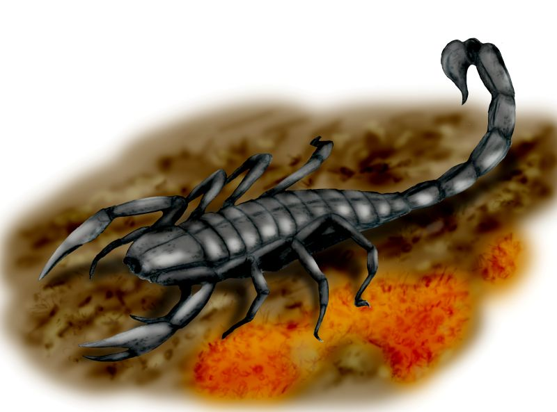 Pulmonoscorpius kirktonensis from the Early Carboniferous of Scotland